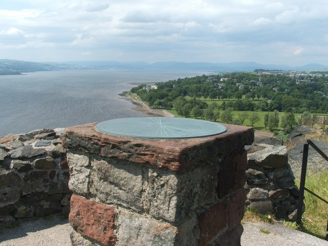 Dumbarton Rock: White Tower Crag [This is the last in a linked series of articles about Dumbarton Rock. See the end of 1380091 (the first article in the series) for a list of the reference works that are cited here in abbreviated form.] Of the two peaks that make up Dumbarton Rock, the western peak, White Tower Crag, is the higher, at 73 metres. At present, the main structures on White Tower Crag are a trig point (1382302), a flagstaff, and the direction indicator that is shown in this photo, partly enclosed by the ruined semicircular base of a building. (The foreshore area at Levengrove is visible in the background, behind the pillar.) Early in the site's history, when the Rock served as the fortress of the Strathclyde Britons, "the western of the two peaks, the White Tower Crag, would have been too pointed for anything other than a look-out post" [HD, p11, 71]. In the medieval period, several buildings were clustered in the level terrace between the two peaks (the Over Bailey – ). However, the western peak was the location of the White Tower, a watch-tower which gave the crag its modern name [HD, p73]; it was apparently at, or close to, the location of the modern direction indicator shown in this image. The White Tower is shown in John Slezer's view (c. 1690) of the Rock from the north-west [HD, p74], and is mentioned even earlier, in a 1580 inventory [MacPhail, p132]. However, that tower has been completely destroyed; the ruined semicircular base that is currently visible here is of unknown origin. As for the direction finder, it gives distances and heights of about forty locations that are up to 32 miles away. Its inscription reads: DUMBARTON ROCK Height 240.4ft : Lat. 55°56´ : Lon. 4°33´ W M – Miles. H – Height in Feet. This Plate presented to H.M. OFFICE OF WORKS. by the LONDON-DUMBARTONSHIRE ASSOCIATION 1932. Sir Iain Colquhoun Bart., D.S.O. President Unveiled by PROVOST BILSLAND – DUMBARTON. Previous: 1381510.